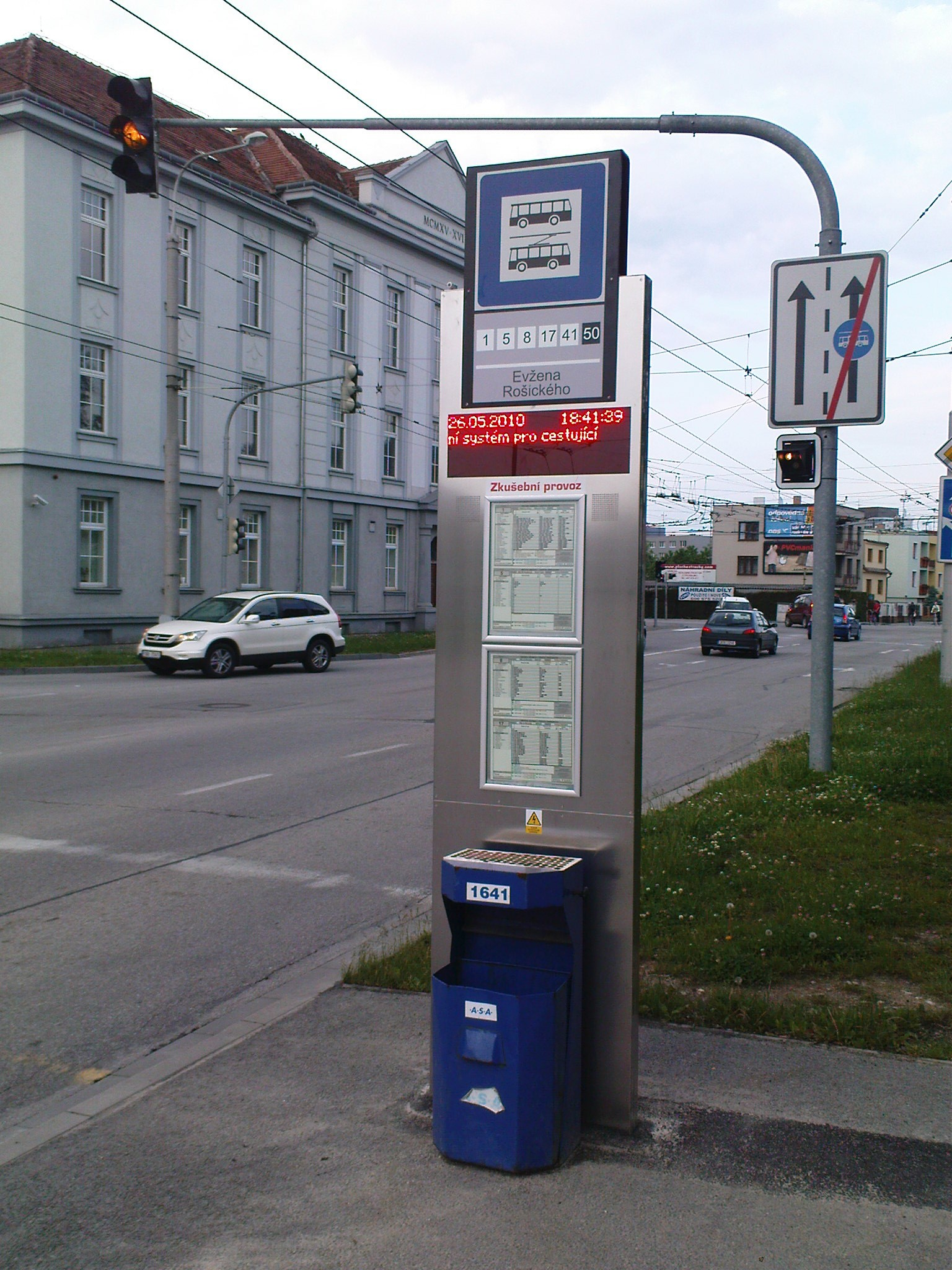 New trolleybus & bus stop sign in České Budějovice, Czech Republic - Evžena Rošického stop in O. Nedbala St.